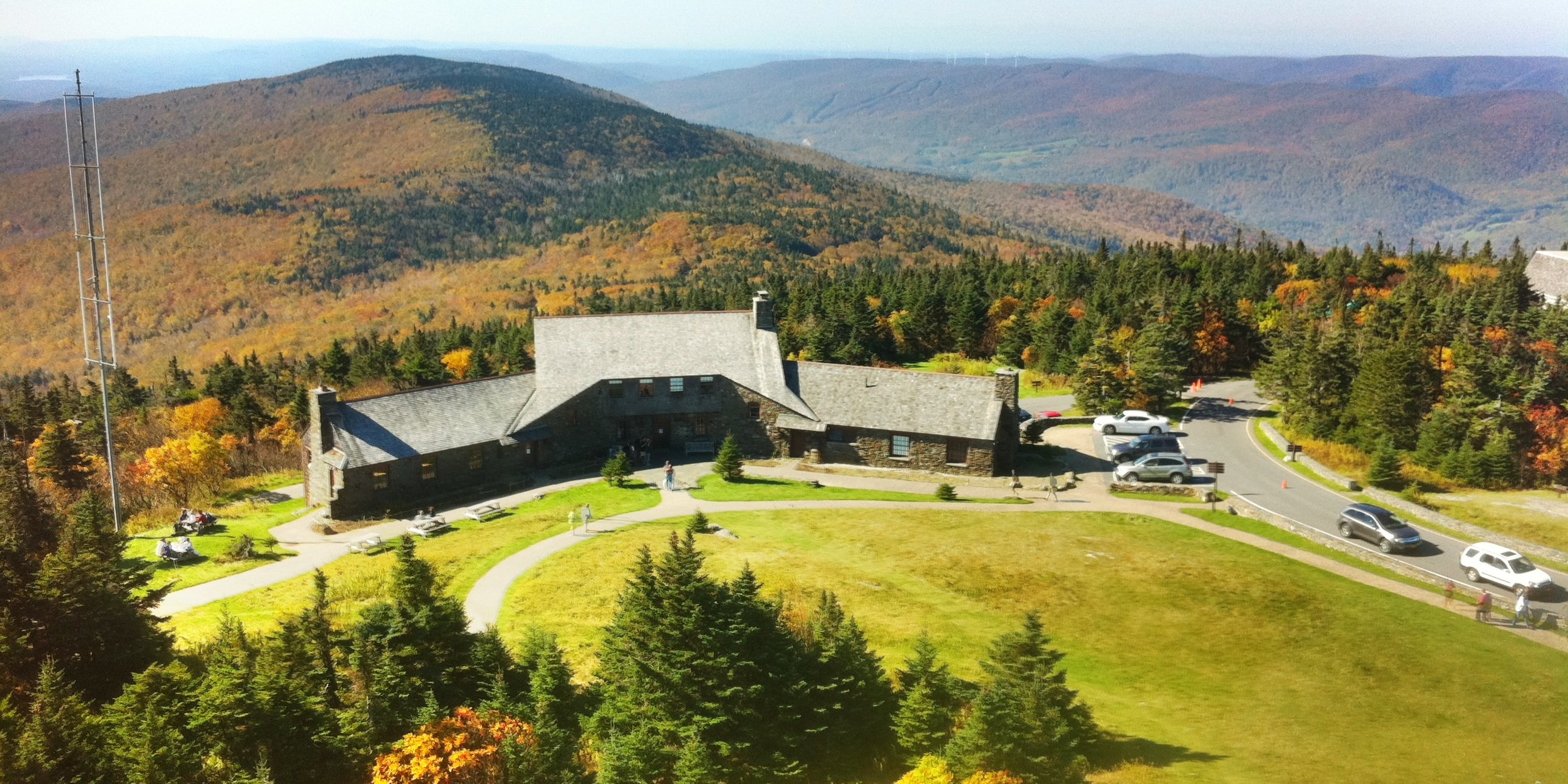 Bascom Lodge atop Mount Greylock